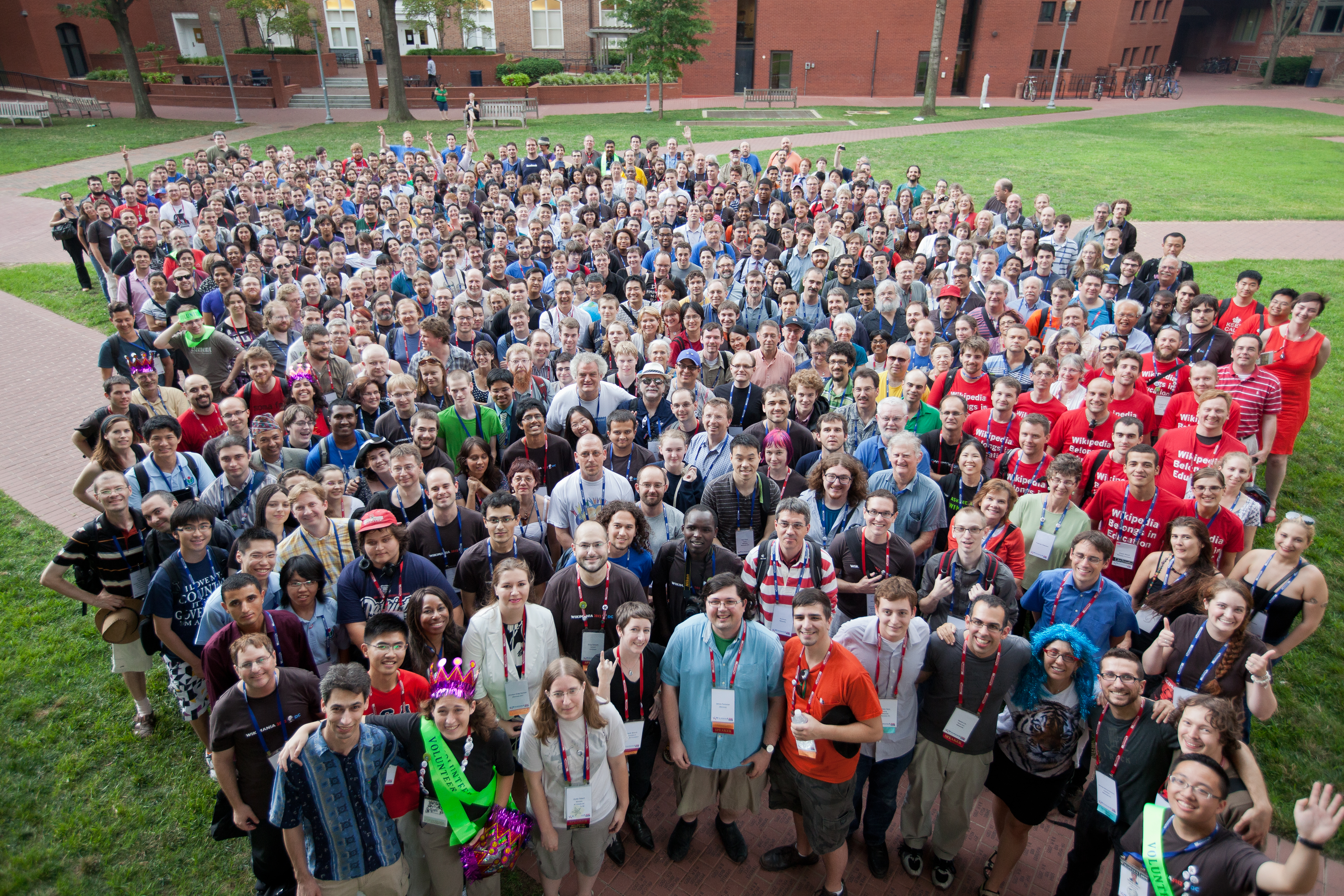 University Yard, George Washington University, Washington DC